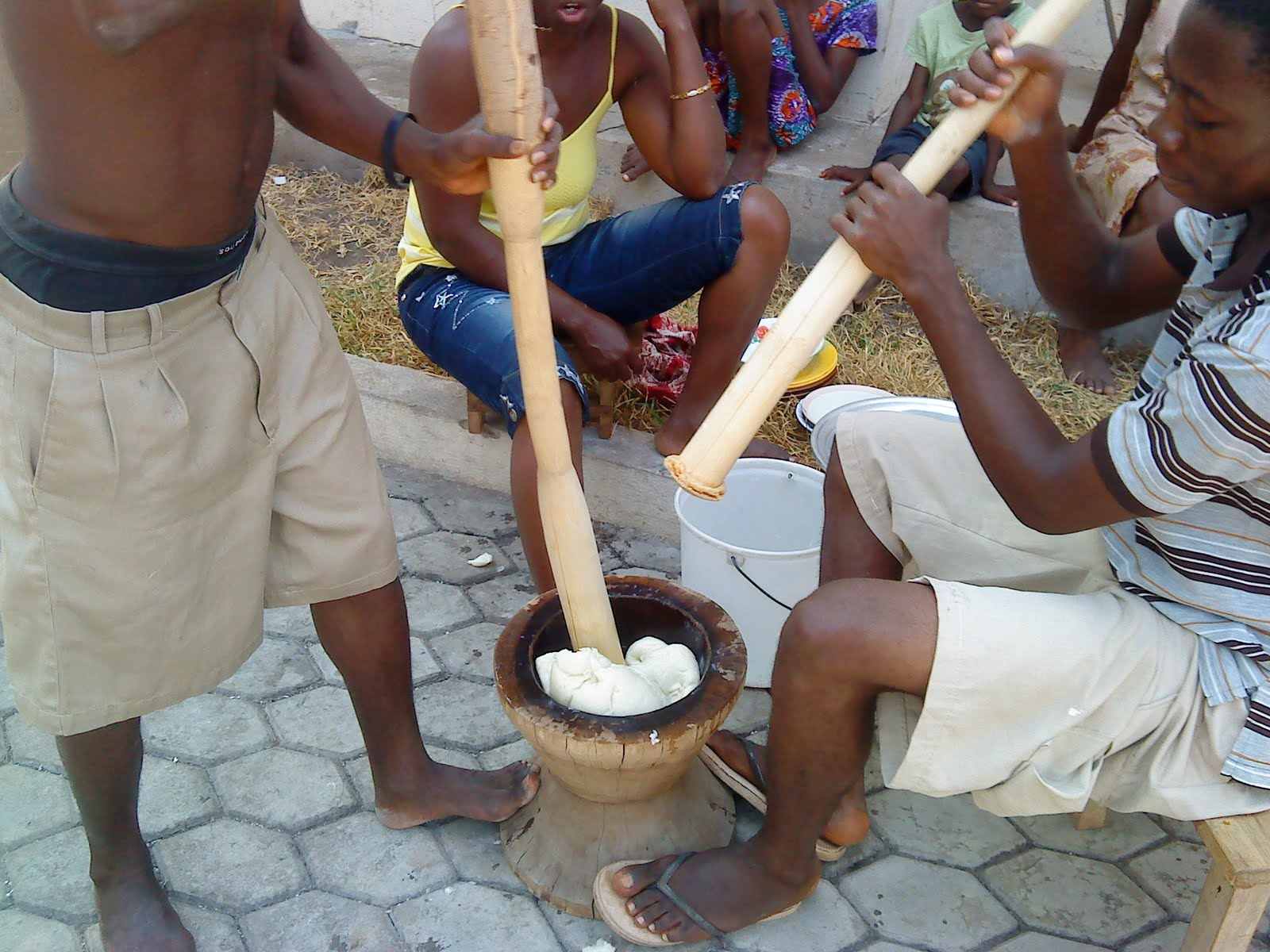 Burning calories in preparing the fufu This is an image of food from Ghana